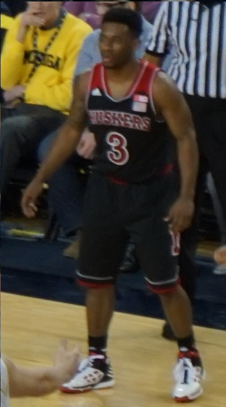 Andrew White playing for Nebraska